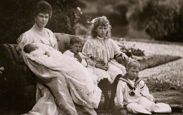 A postcard print of Mary of Teck (then Princess of Wales) with her four youngest children: Princess Mary, Prince Henry, Prince George and Prince John.